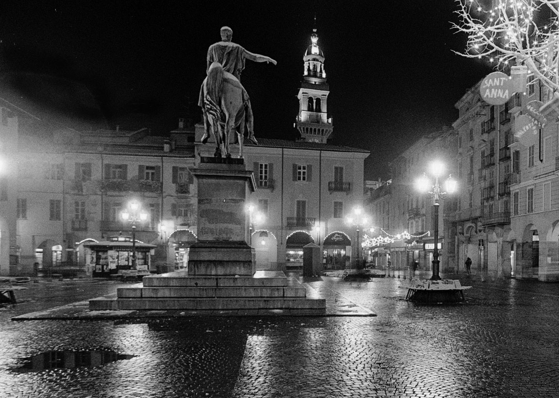 Piazza Mazzini, Casale Monferrato on an evening around Christmas with an equestrian statue of Carlo Alberto by Abbondio Sangiorgio (1798–1879) and, in the background, the Torre civica (town tower).